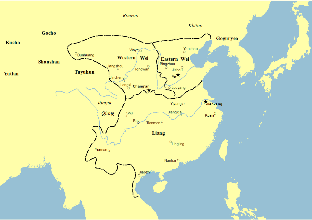 Map showing Eastern Wei, Western Wei and Liang